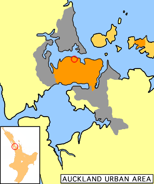 Map of Auckland urban area, Auckland City highlighted (dark orange=populated; light orange=rural areas)